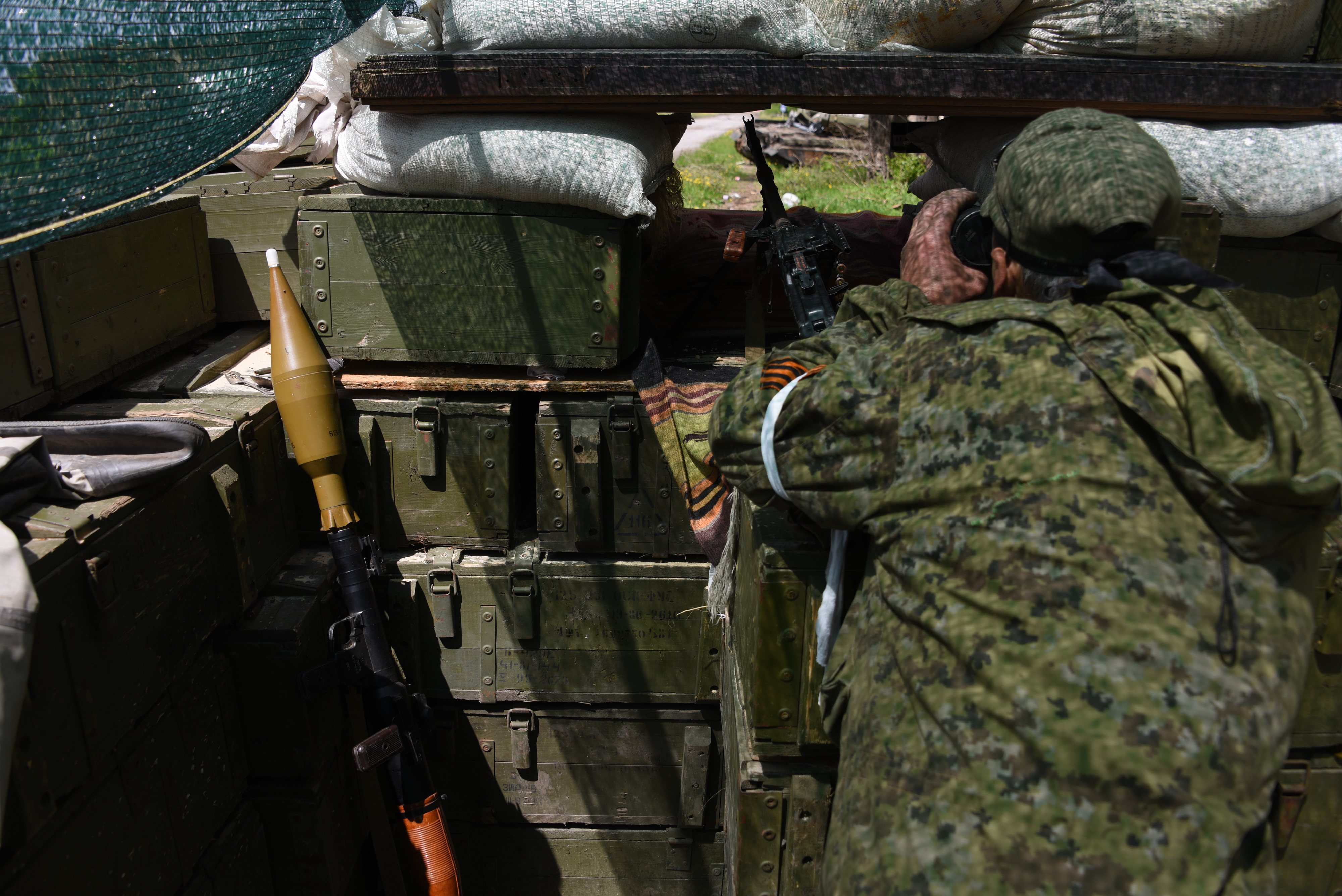 A Russia-backed rebel observing Ukrainian army positions though firing port at his position near Donetsk, Eastern Ukraine, May 17, 2015.